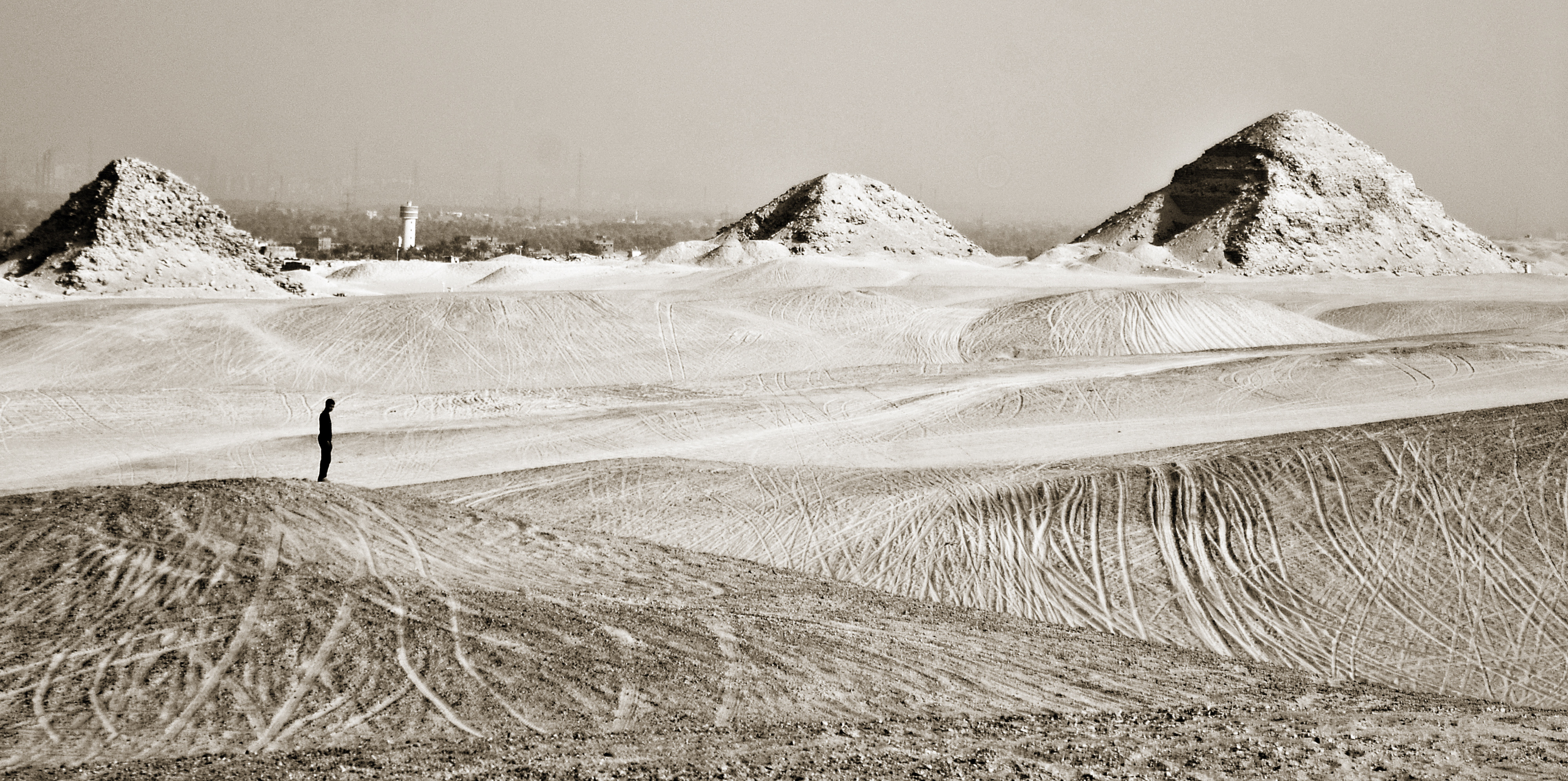 Landscape of Abusir pyramids. Egypt, North Africa.